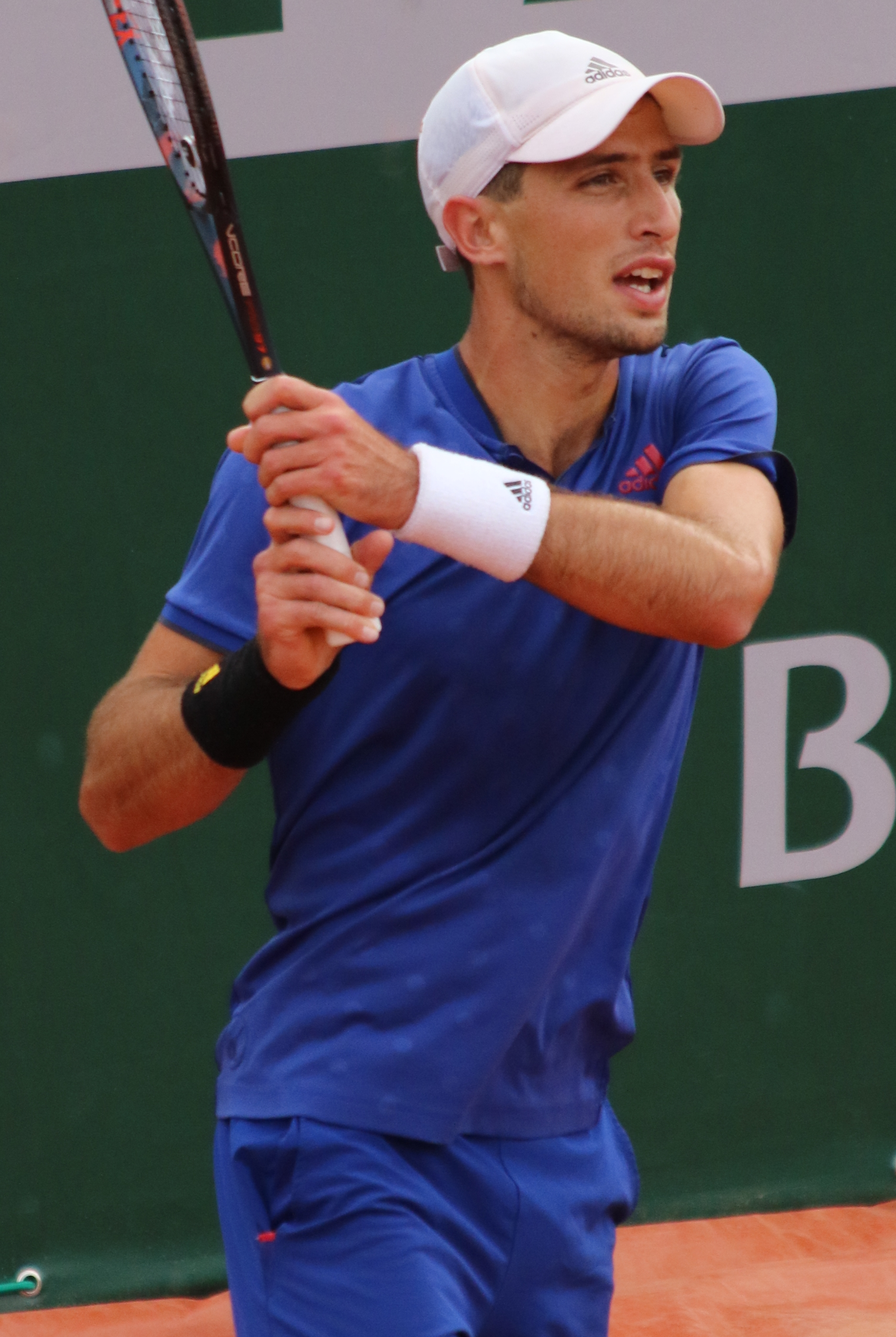 Cachin RGQ19 (49)